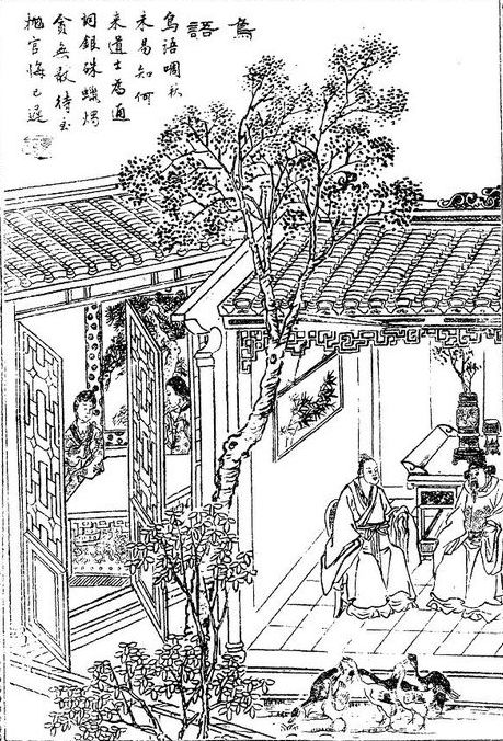 19th-century illustration of a scene from the short story "The Bird Language“ collected in Strange Tales from a Chinese Studio (1740).